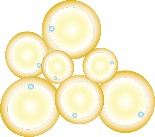 Mature adipocytes. Images are from Togo picture gallery maintained by Database Center for Life Science (DBCLS).